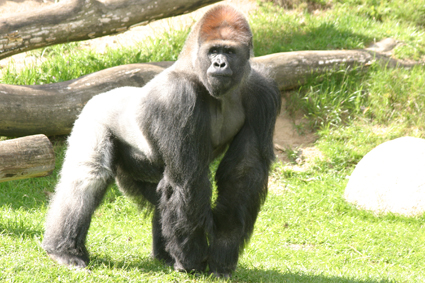 Samson, alpha male (leader) gorilla in Givskud Zoo